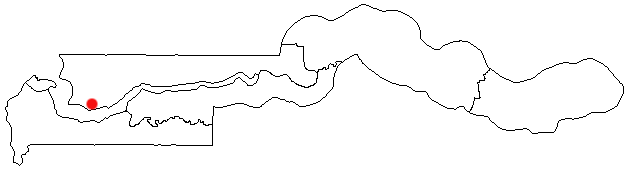 Jufureh, The Gambia Location Map